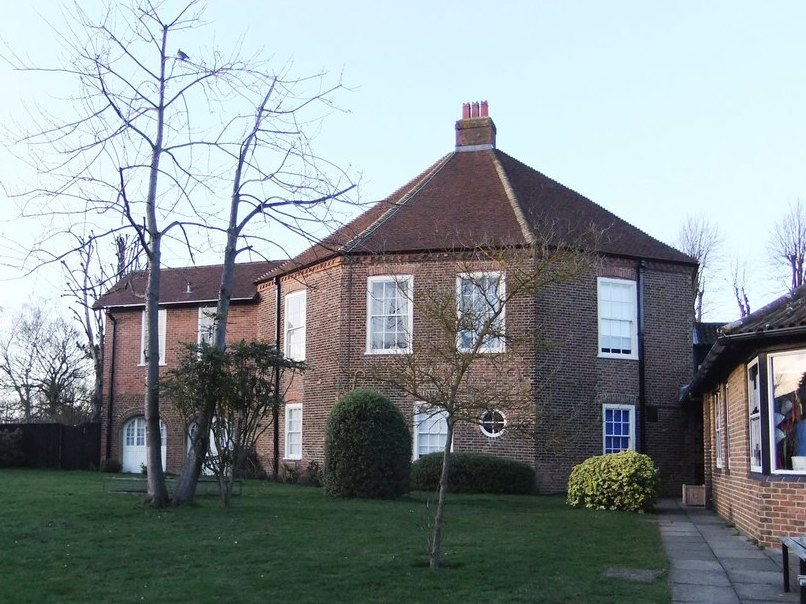 The 'Round School', (now The Study), Camp Road, Wimbledon Common